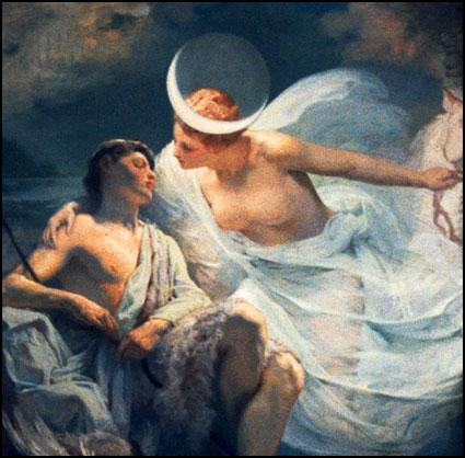 Selena kisses Endymion while he's asleep